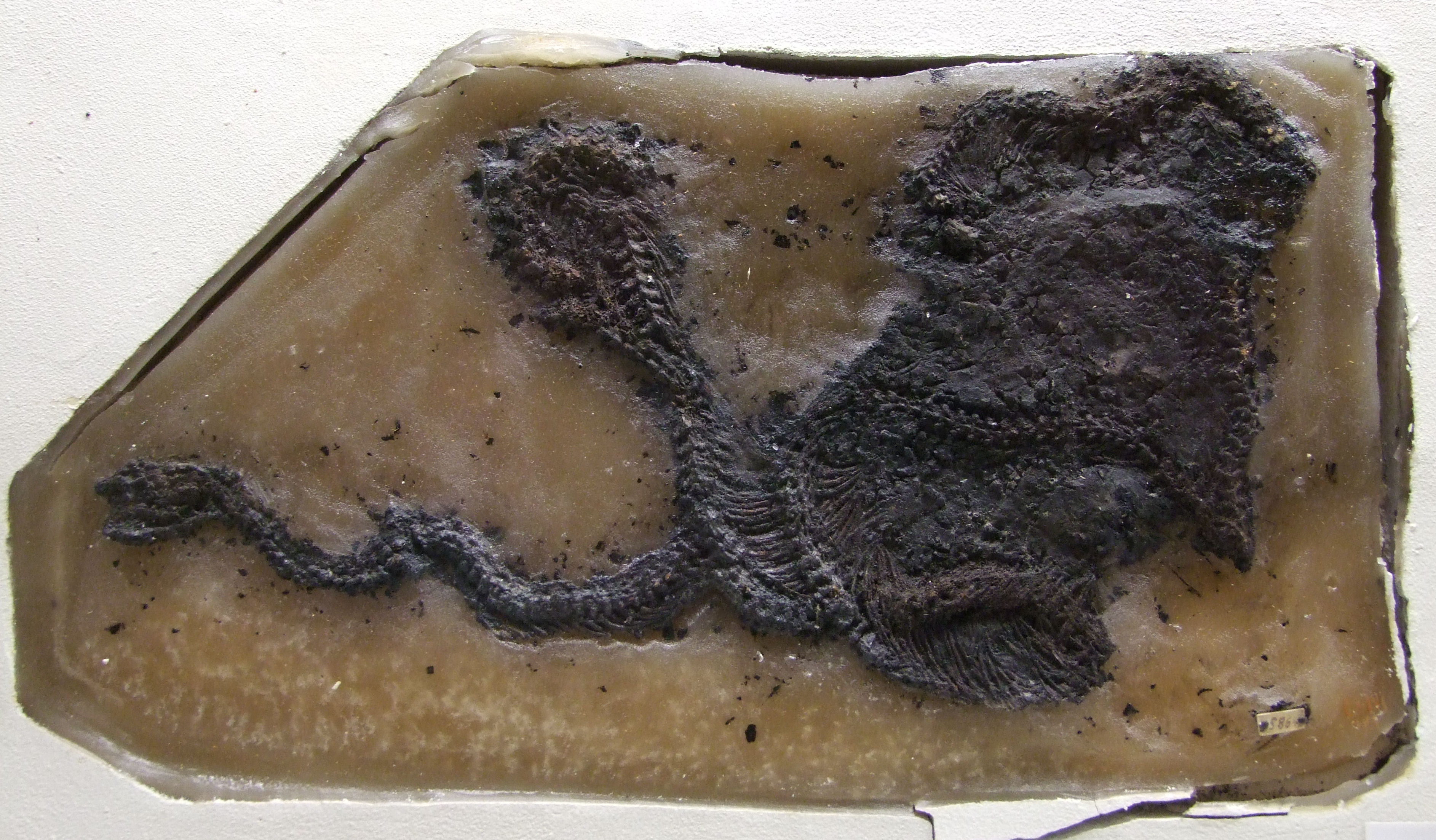 remains of Paleryx from the Eocene of the Geiseltal, Germany; took the picture in the Geiseltalmuseum, Halle (Saxony-Anhalt)